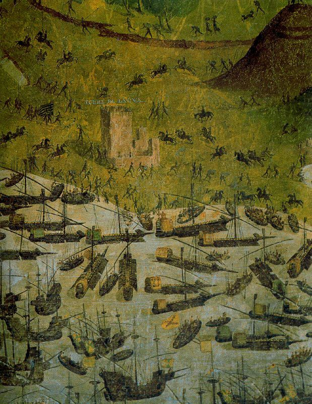 Expedition of Charles V in Tunisia. Detail of mural paintings of the Tower del Peinador de la Reina or de la Estufa, the Alhambra, Granada.